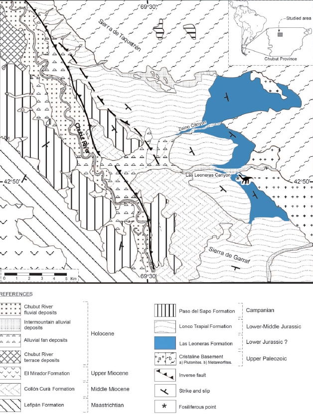 Geologic map of the Cañadón Asfalto Basin - Las Leoneras and other formations